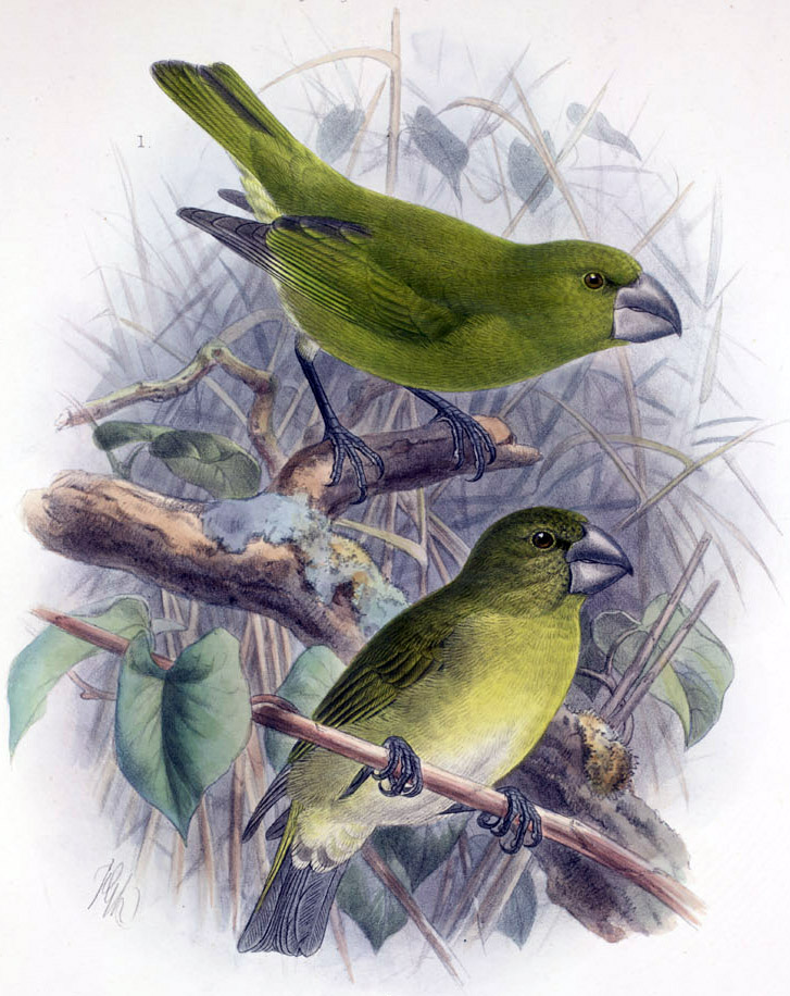 Chloridops kona (Wils.) (above) adult (below) immature